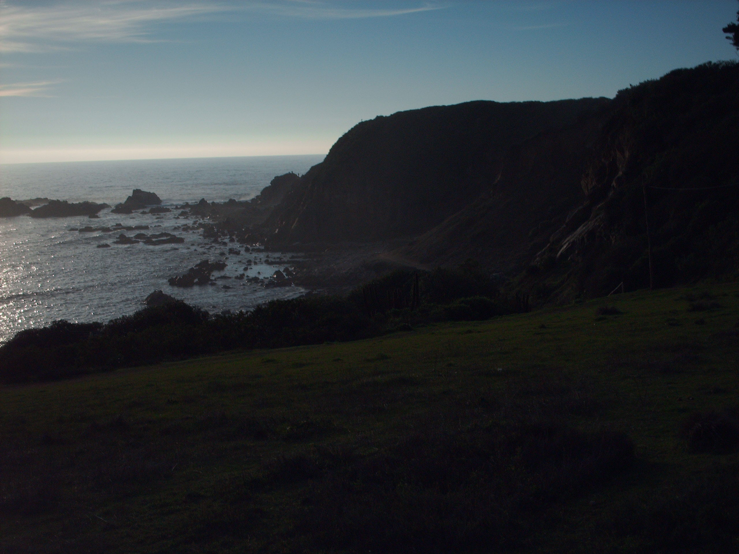 North side of El Quisco, near Valparaiso Chile